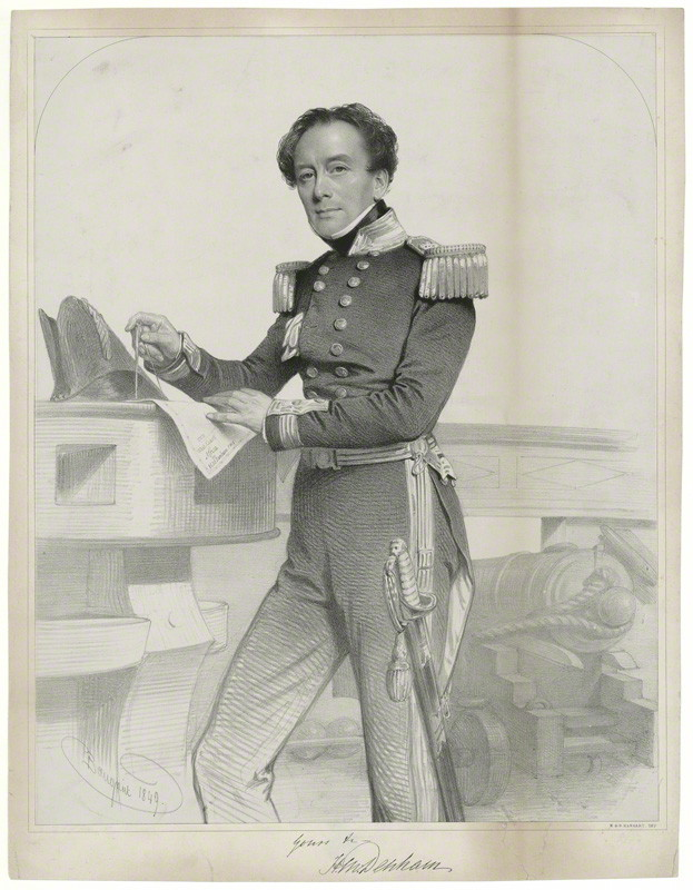 Portrait of Captain Sir Henry Mangles Denham (1800-1887), lithograph ; 40 x 32 cm. pasted on card 49 x 37 cm